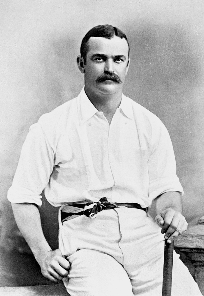 Sport, Cricket, Circa 1895, John James Lyons, South Australia (1894-1900), he also played in 14 Tests for Australia.